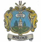 Coat of arms of Hagyárosbörönd, Hungary